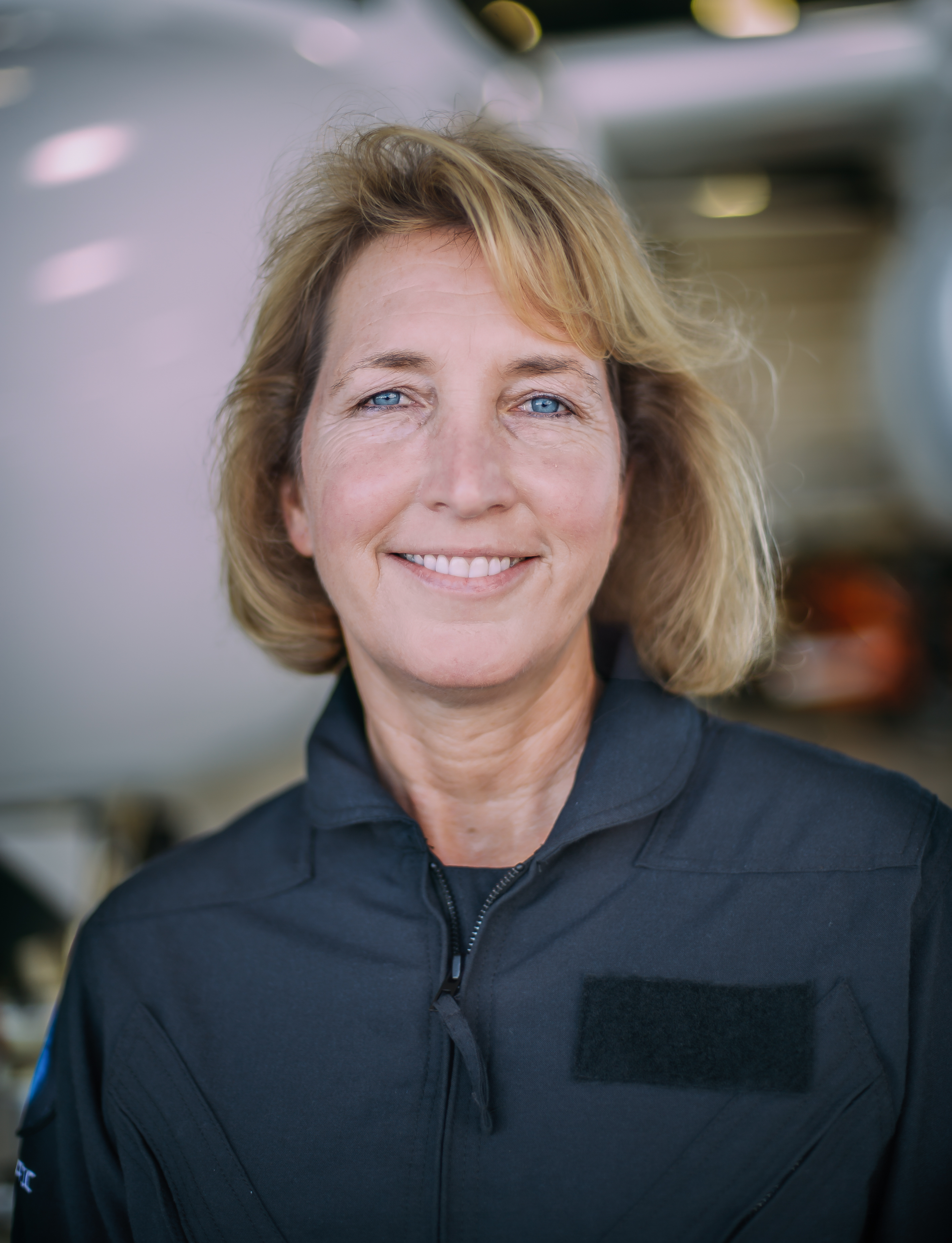 Kelly Latimer, former combat veteran and retired United States Air Force Lieutenant Colonel, as seen in 2016.